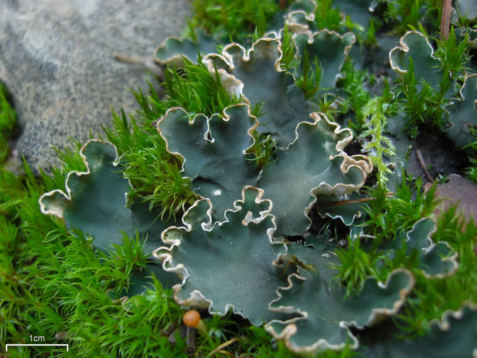 Peltigera malacea (Ach.) Funck Location: Manning Park, British Columbia, Canada Observation Notes: on mossy trailside near Silmakeen River ~1000’ Image Notes: slightly damp For more information about this, see the observation page at Mushroom Observer.